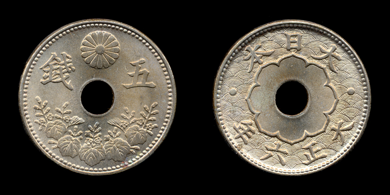 5sen-T6